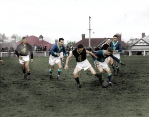 Scene from an australian football match between Cananore F.C. and Lefroy F.C.